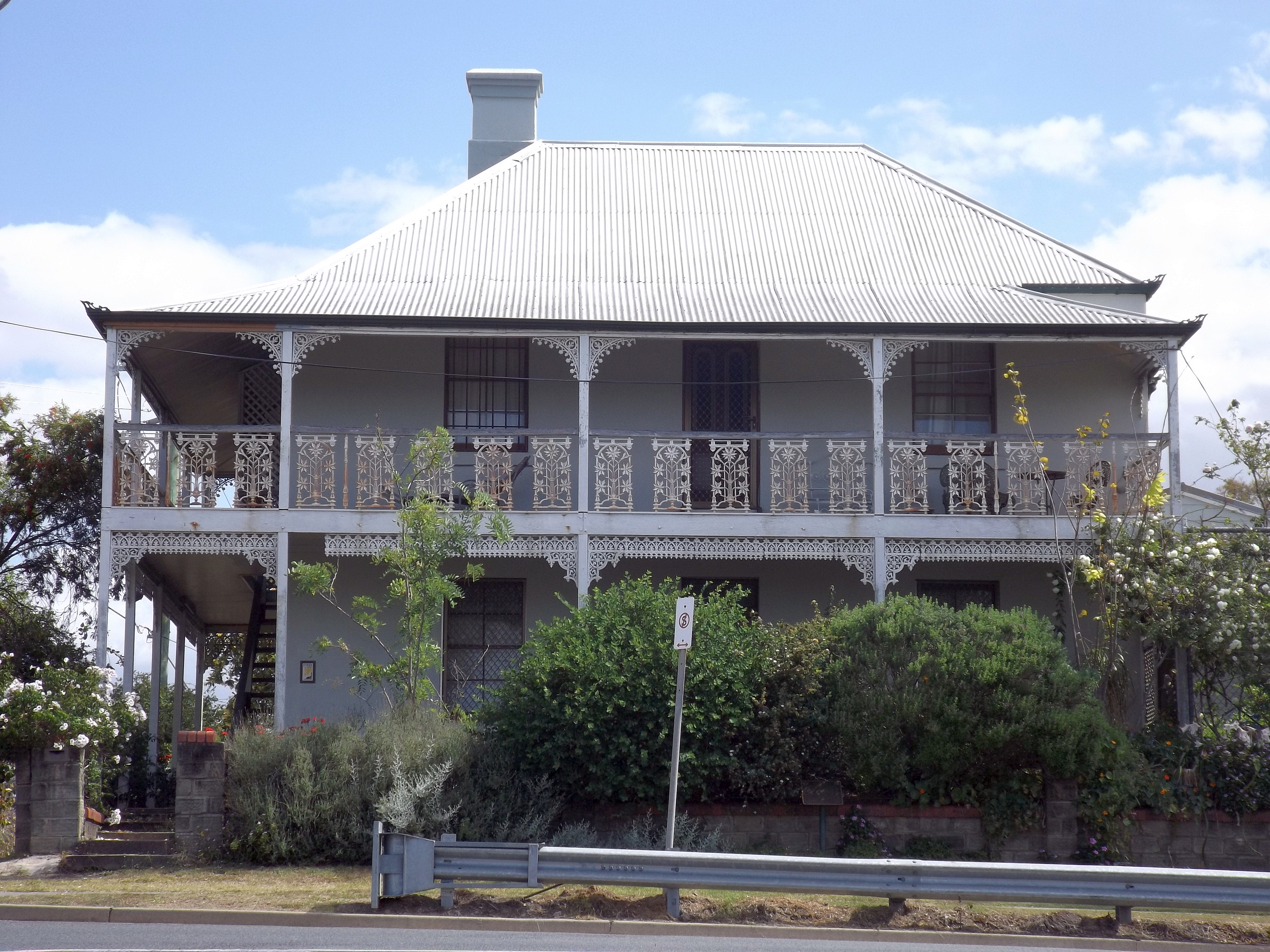 Photo of the William Berry residence at West Ipswich, Queensland, Australia.